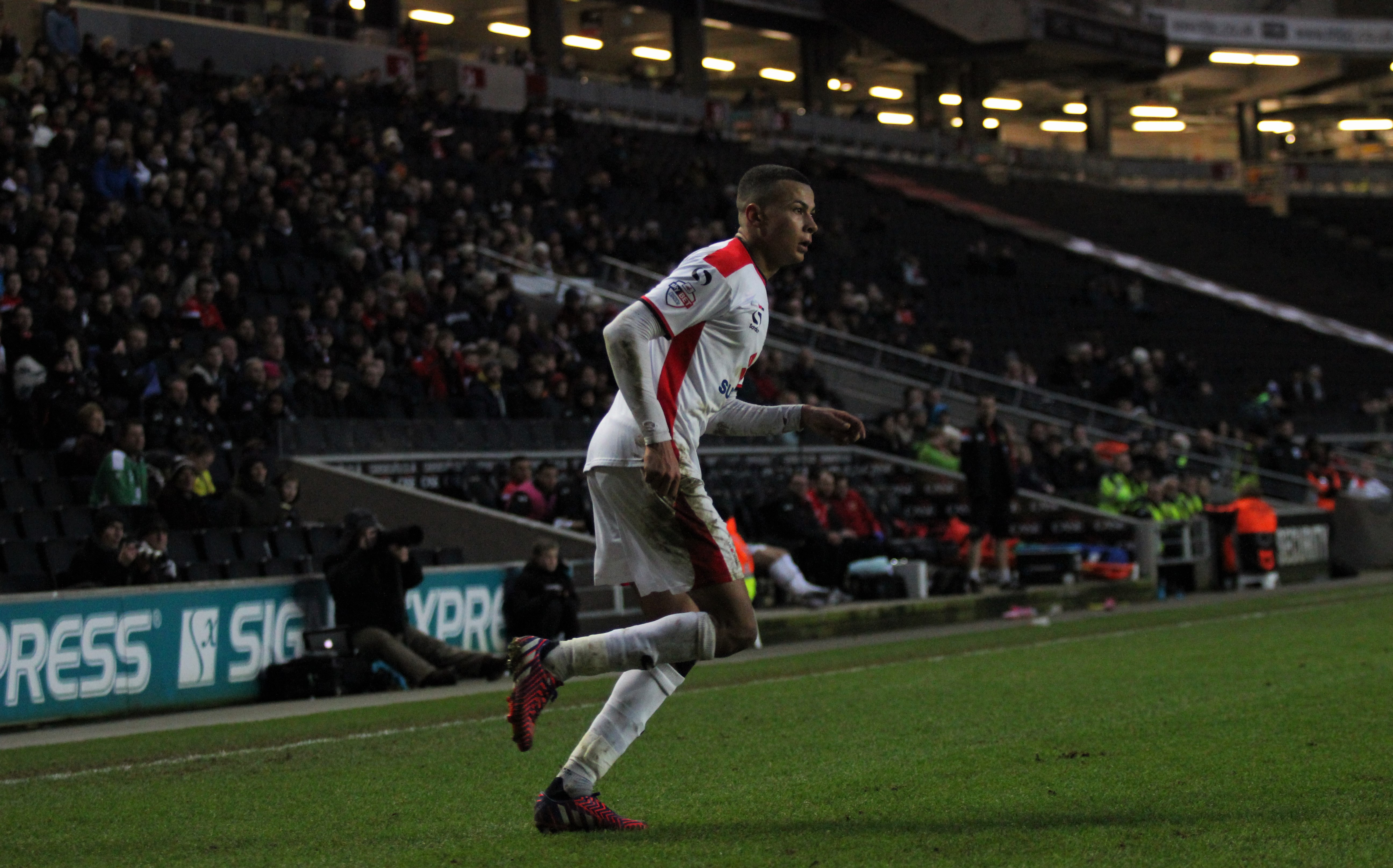 Dele Alli of MK Dons during the League 1 match against Barnsley